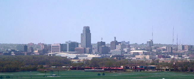 Omaha, Nebraska Skyline taken from Council Bluffs, Iowa on a humid day